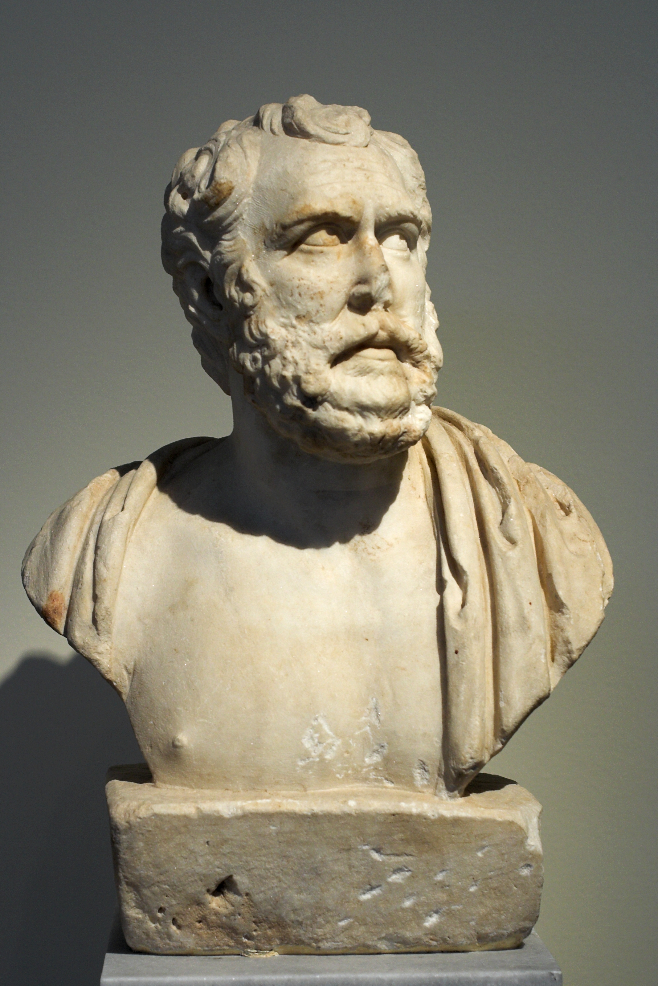 Antonios Polemon of Laodicea (Laodikaia) Syrians. The philosopher, whom the Emperor Hadrian commissioned the opening speech at the opening of the temple of Olympian Zeus in 131 AD. He was a teacher of Herodes Atticus. Busta, pentelic marble, circa 140 AD. Finding: Olympeion (Temple of Olympian Zeus) in Athens. National Archaeological Museum of Athens N 427.